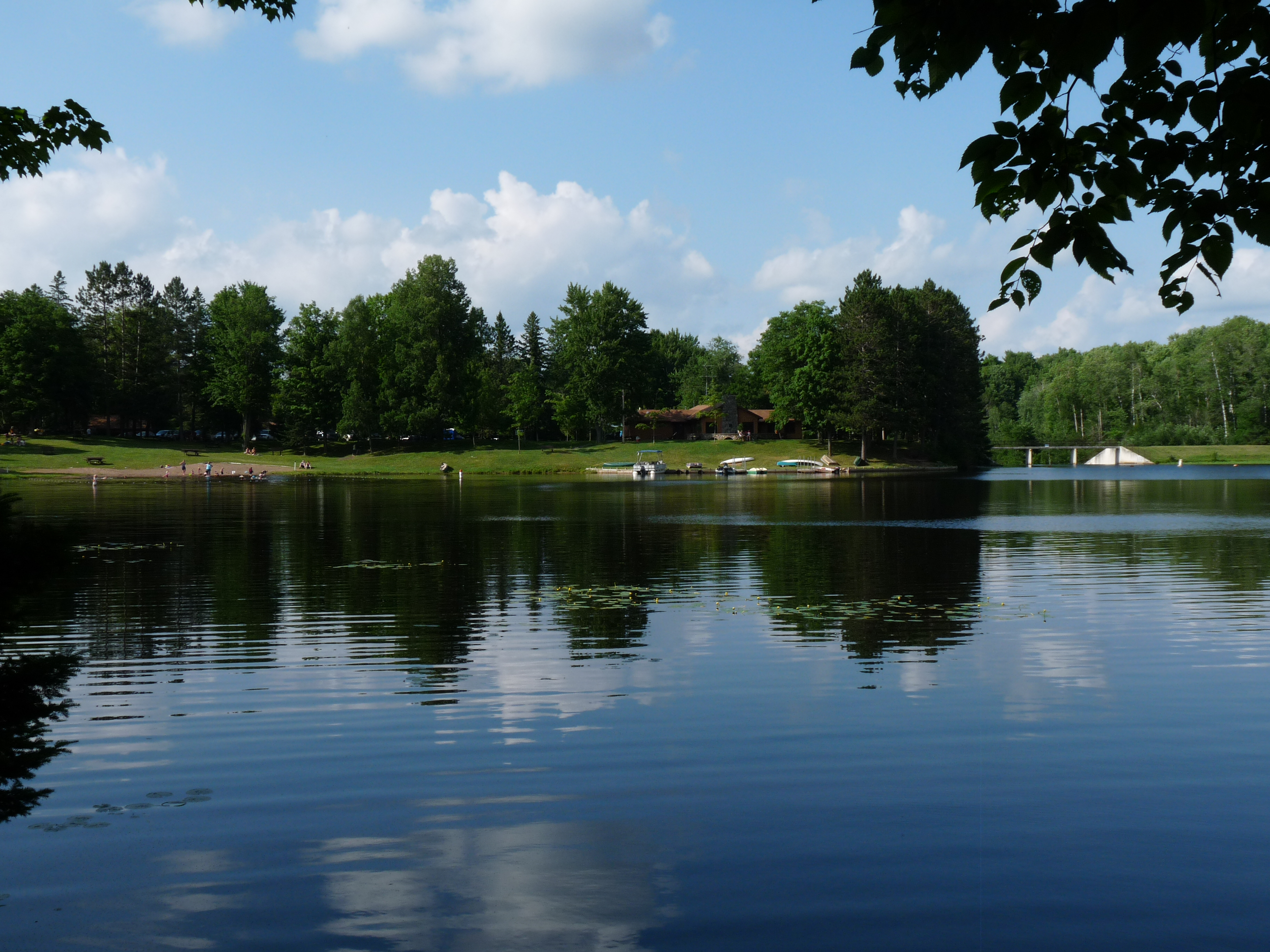 Mondeaux Dam is a recreation area in the Chequamegon National Forest near Medford, Wisconsin. It was built by the WPA and CCCs in the 1930s, and still serves fishermen, campers and picnickers. Mondeaux is on the National Register of Historic Places.